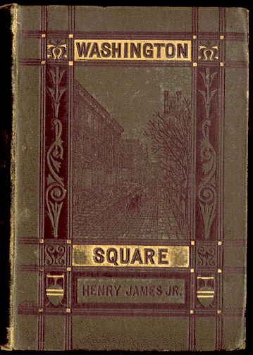 first edition cover of Washington Square by Henry James